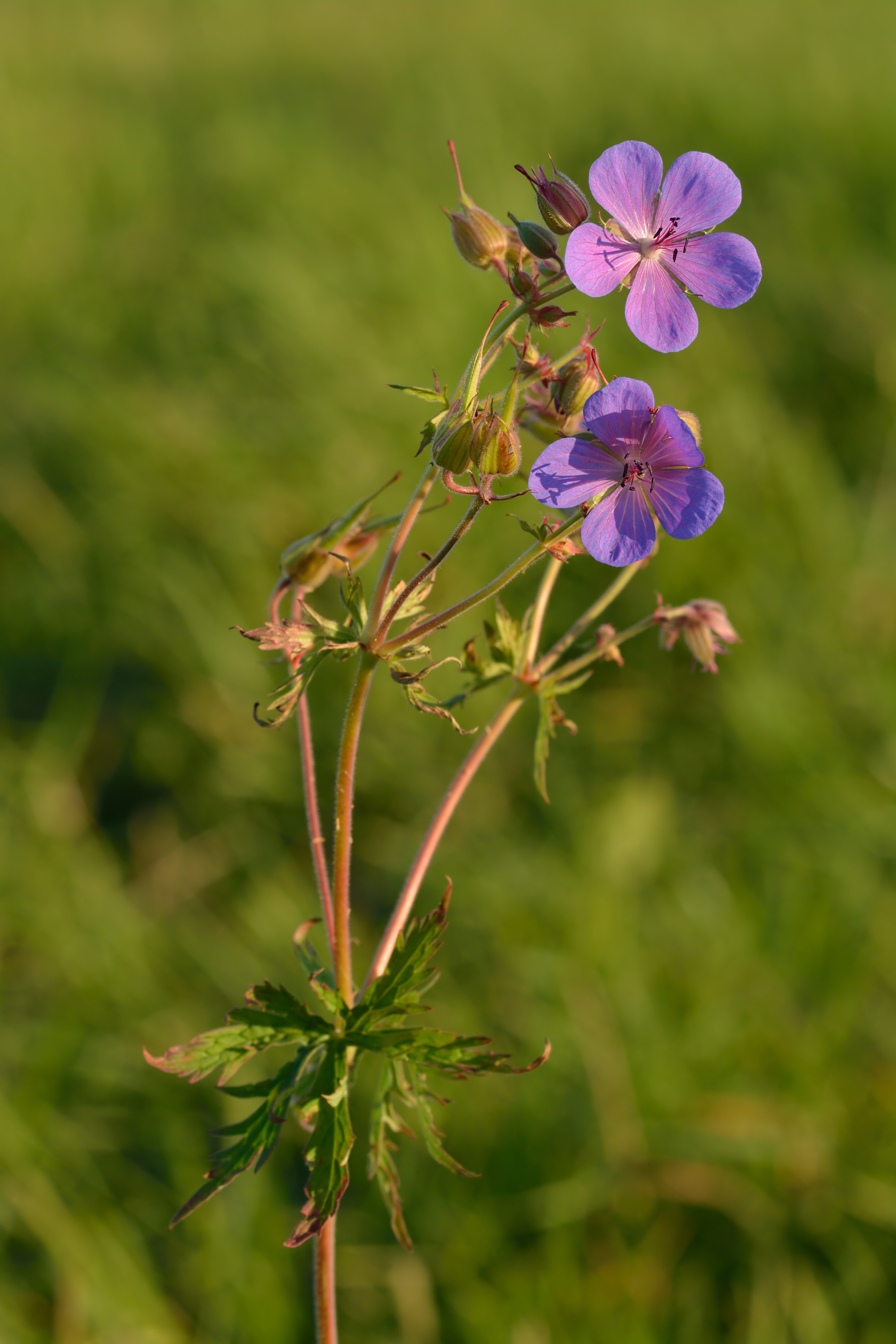 Meadow cranesbill (Geranium pratense). Keila, Northwestern Estonia.